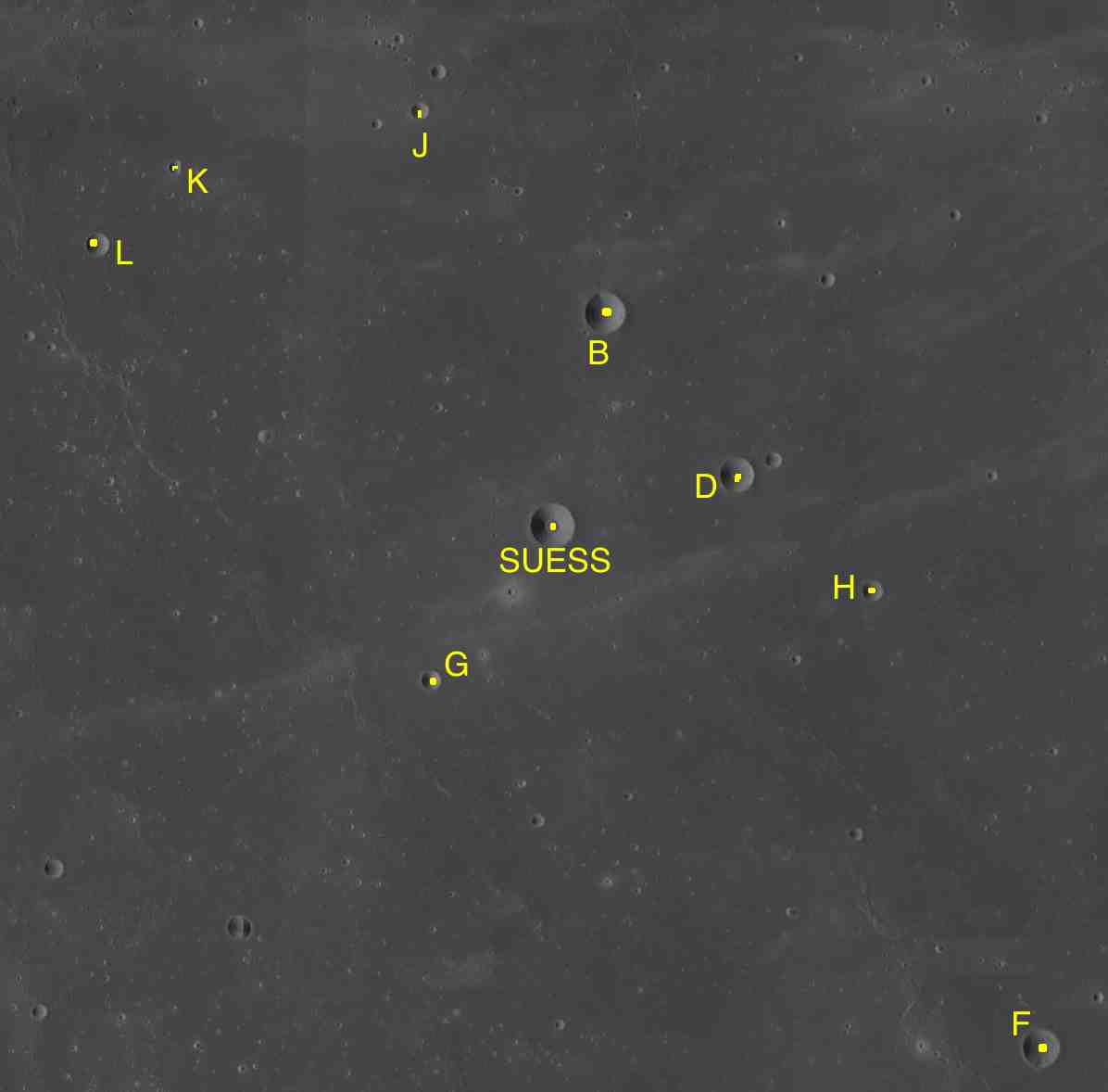 Parts of the charts LAC-56, LAC-57 used for the presentation